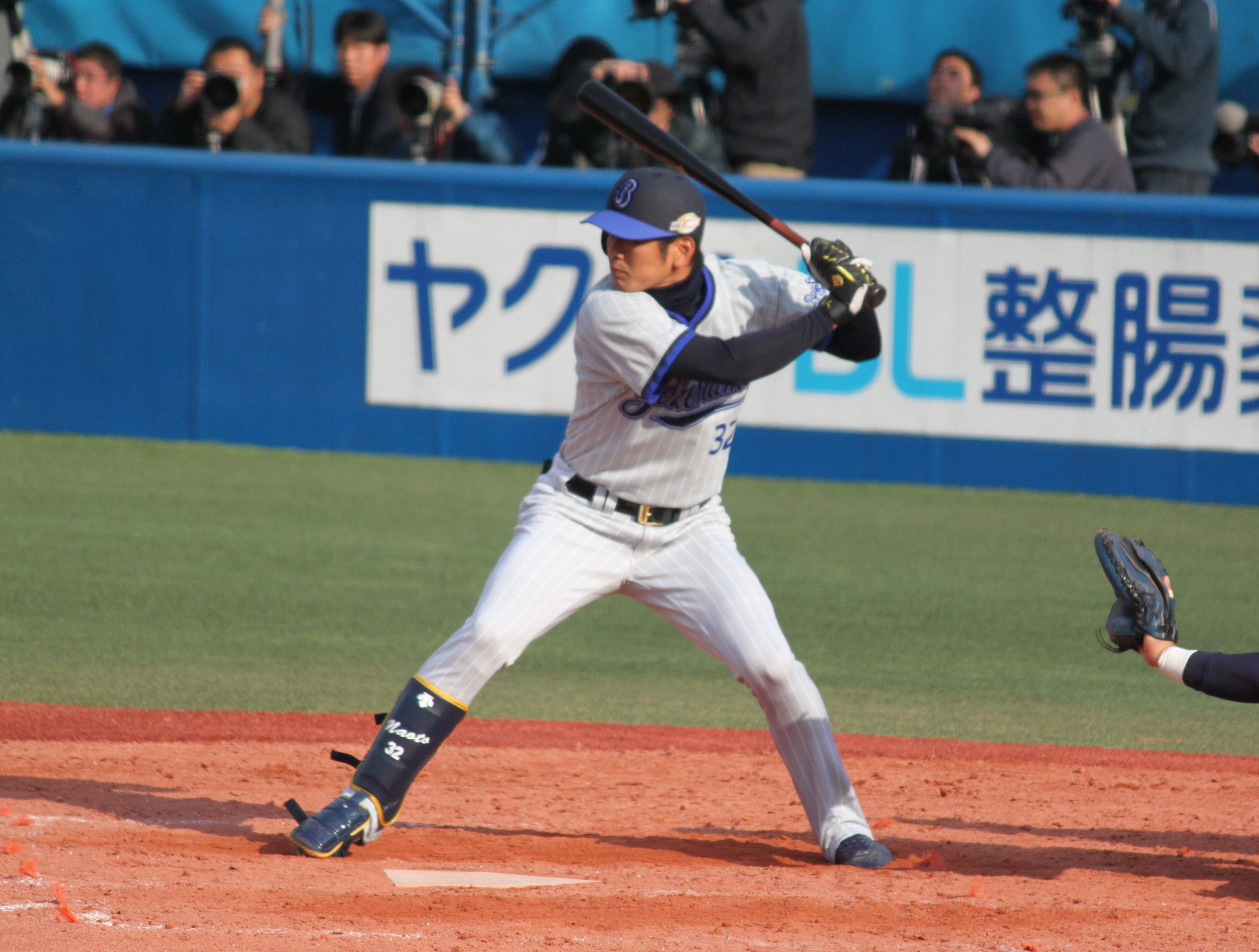 Naoto Inada, infielder of the Yokohama BayStars, at Meiji Jingu Stadium.